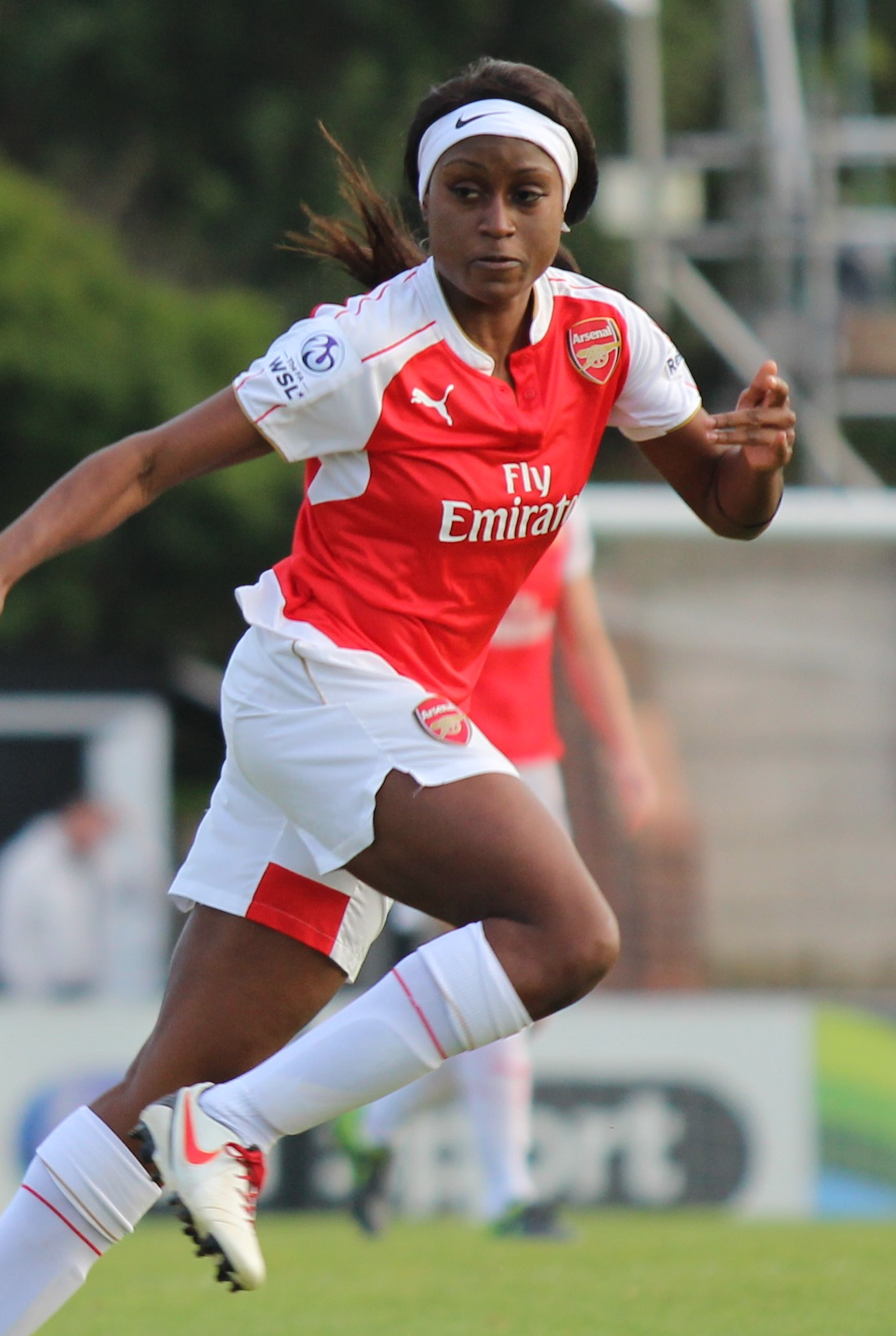 Chioma Ubogagu of Arsenal Ladies watches on as the ball passes her by during the game against Birmingham.